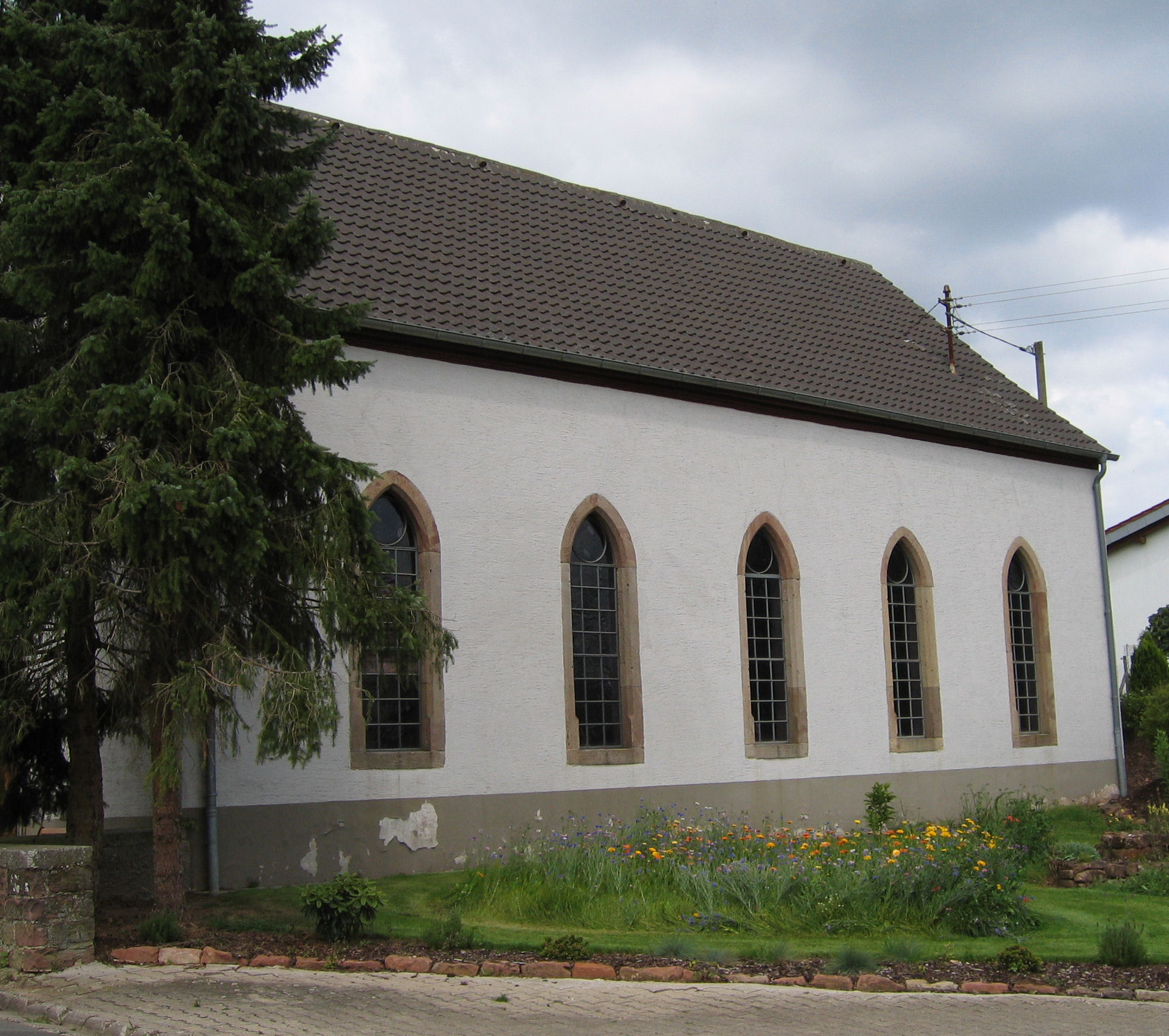 view of Sembach, Germany